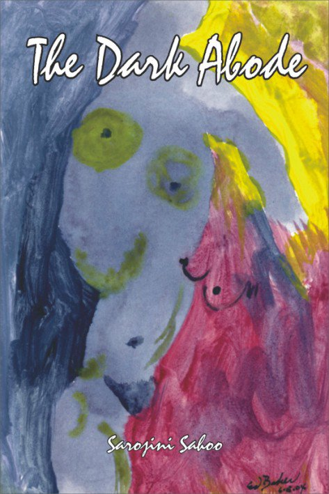 Book Cover of the book The Dark Abode written by Sarojini Sahoo. For Copyright Permission to publish photos and texts in Wikipedia, volunteer response team ticket number is [Ticket#2010102210001366]Kanu786 (talk) 14:20, 9 November 2010 (UTC)